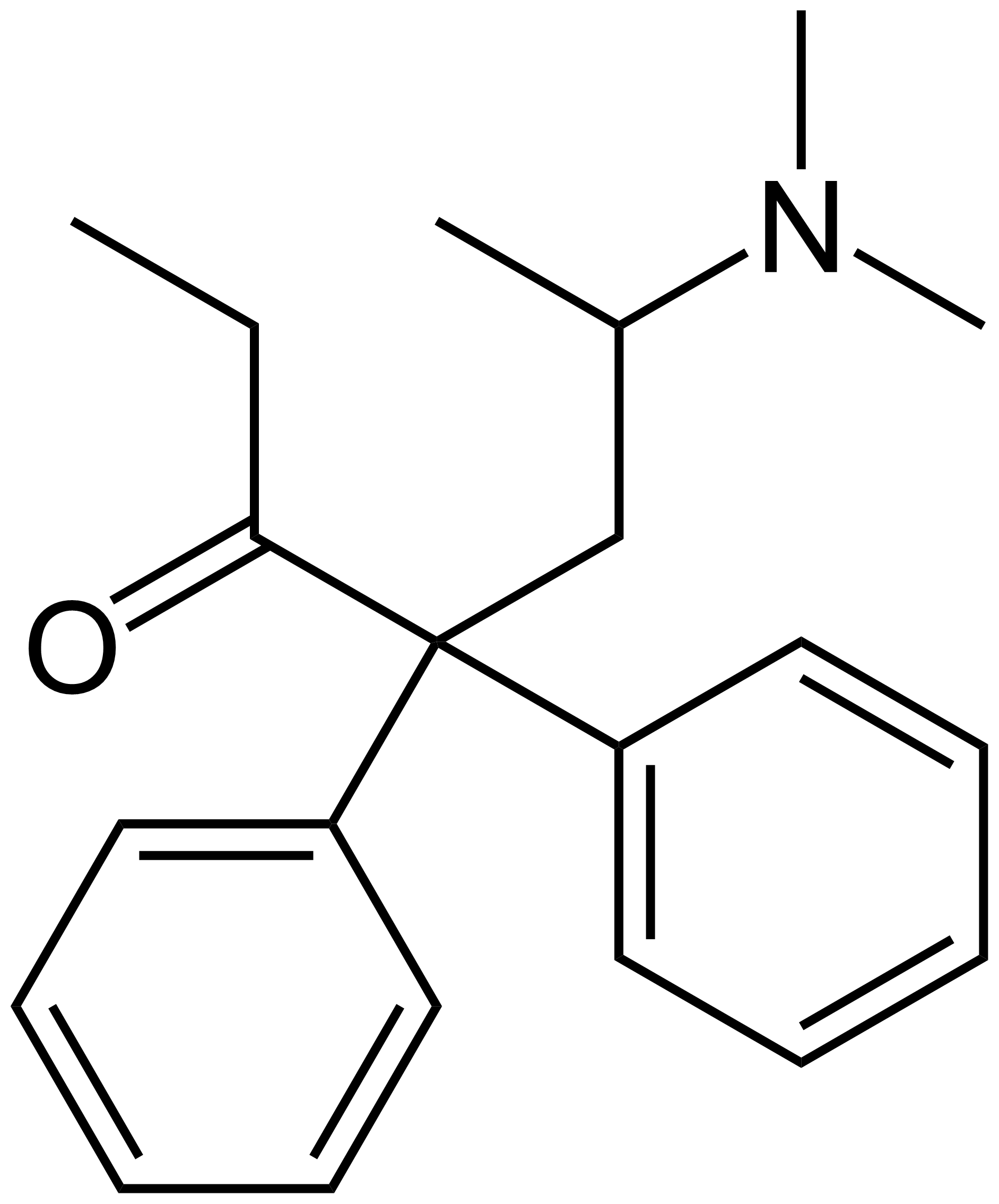 Structure of methadone or 6-(dimethylamino)-4,4-diphenyl-3-heptanone